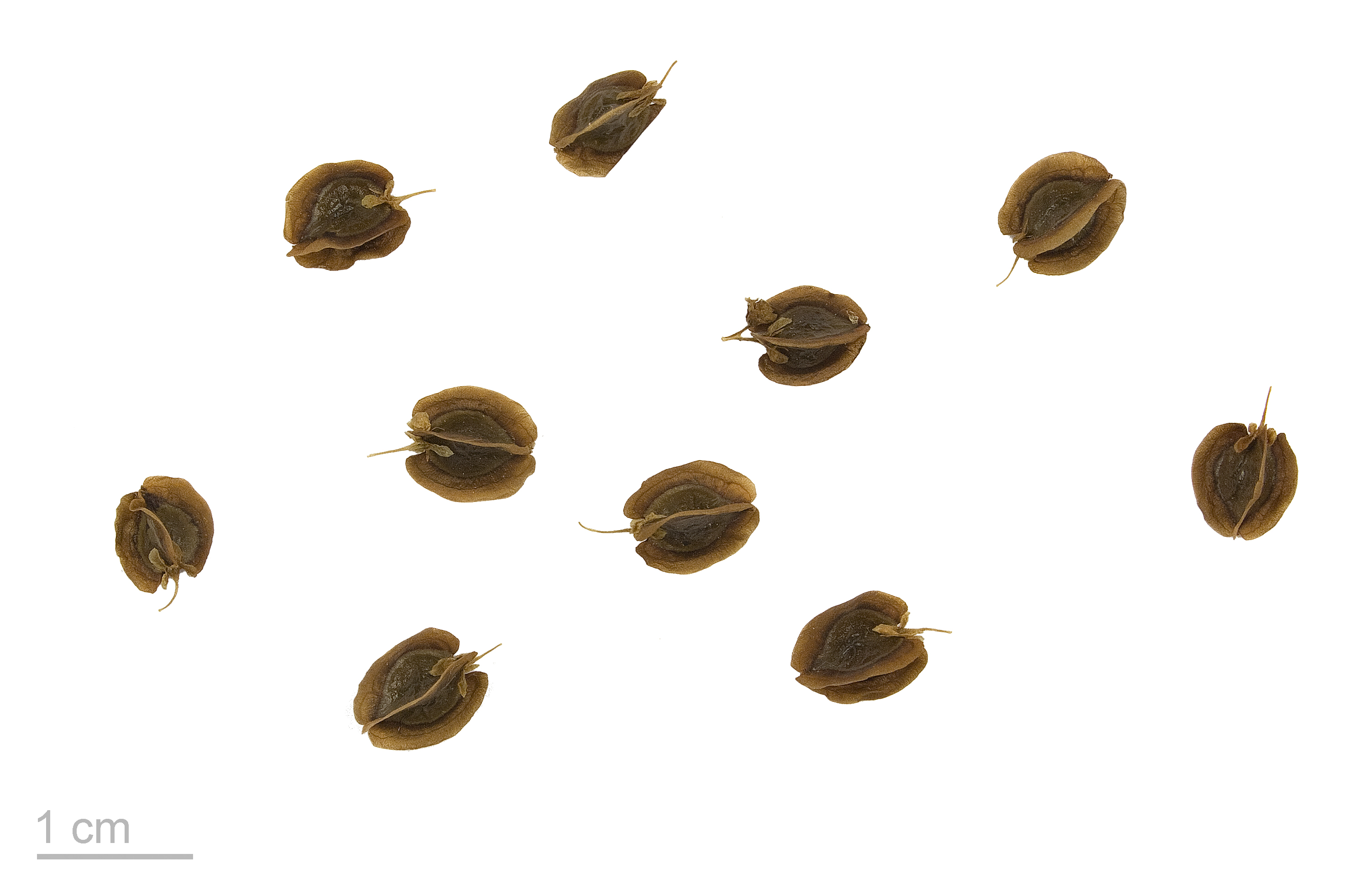 Turkish rhubarb, fruits and seeds